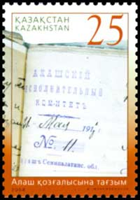 Stamp of Kazakhstan